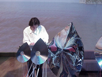 Michel Deneuve playing Cristal